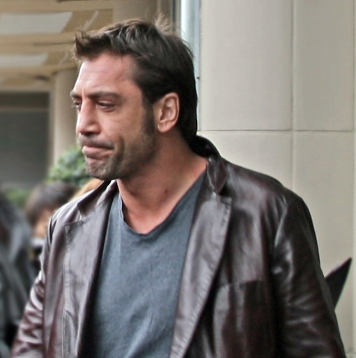 Javier Bardem at the 2007 Toronto International Film Festival